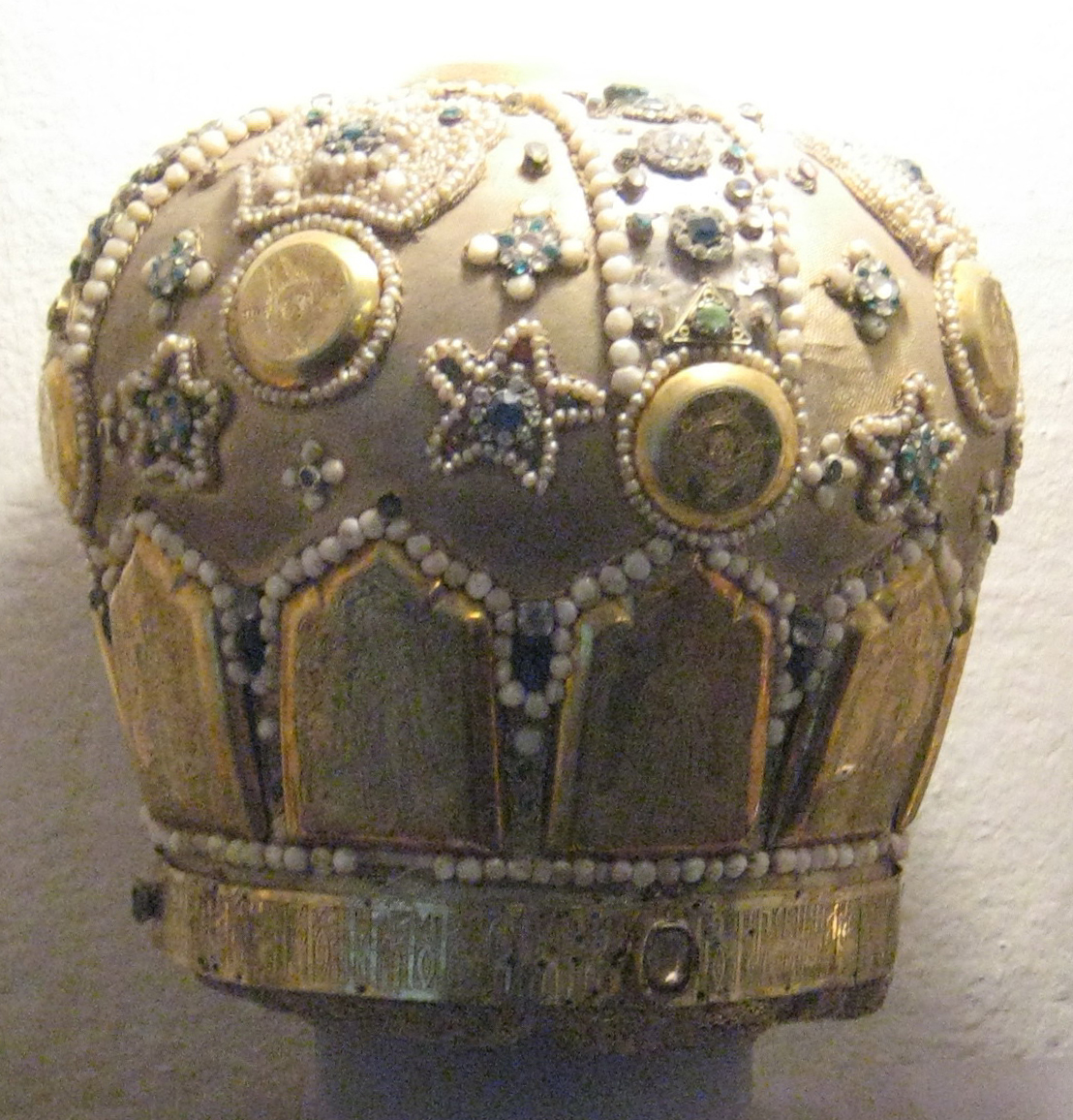 Mitra of iegumen/ Митра иегумена. 1889. From Mirozh monastery, now in museum of Pskov